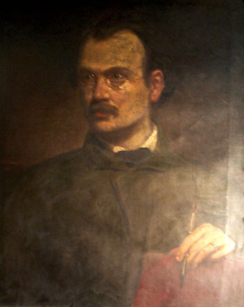 Adalbert J. Volck (1828-1912)